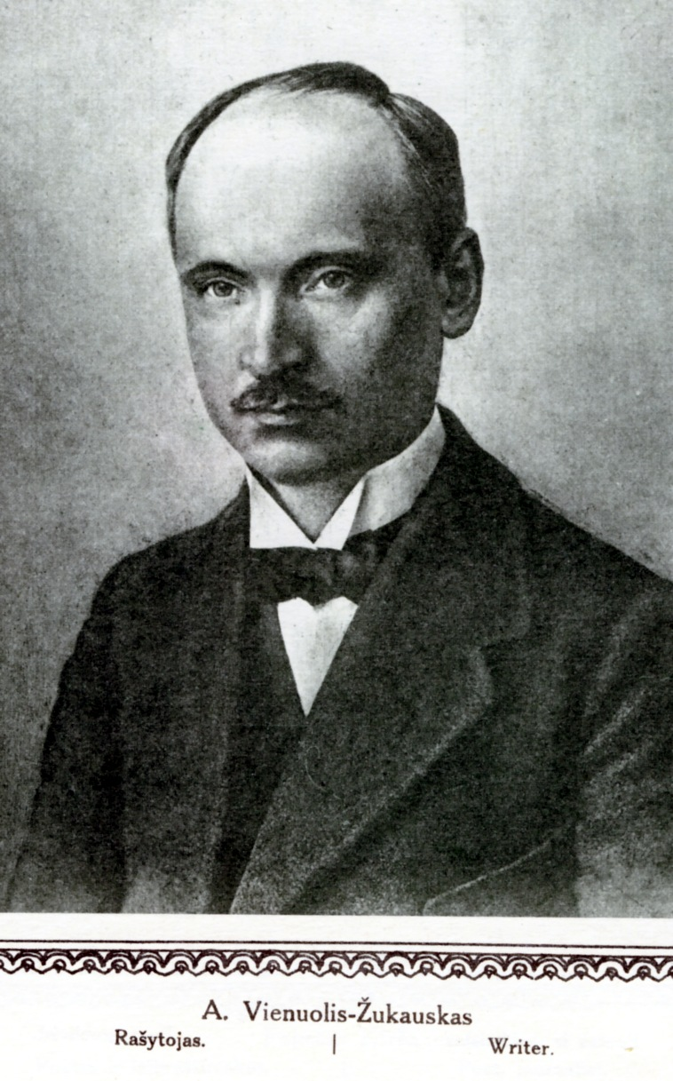 Antanas Vienuolis, Lithuanian writer, playwrightLietuvių: Antanas Vienuolis, Lietuvos farmacininkas, rašytojas prozininkas, dramaturgas